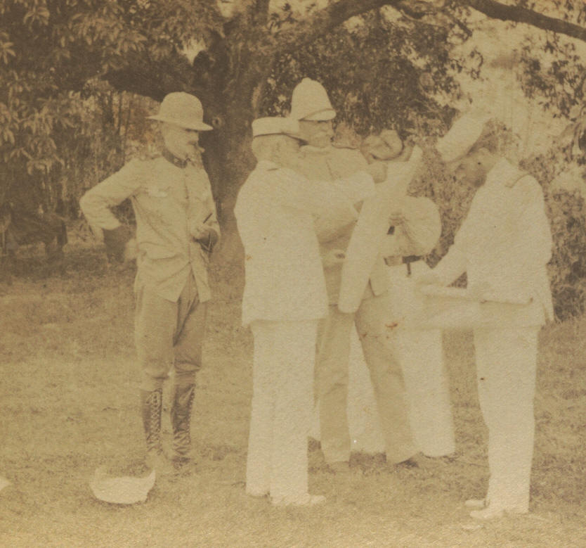 Lawton-Dewey-stereoview